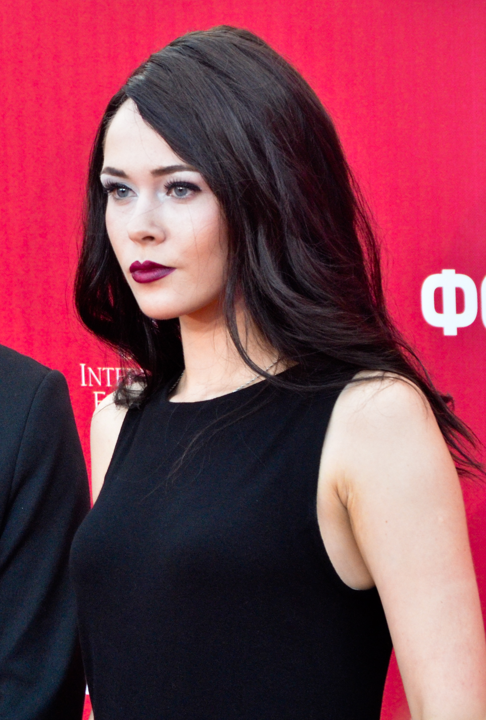 Julia Sanina (Yuliia Sanina), Ukrainian musician, frontwoman of The HARDKISS alternative band, at the 5th Odessa International Film Festival.